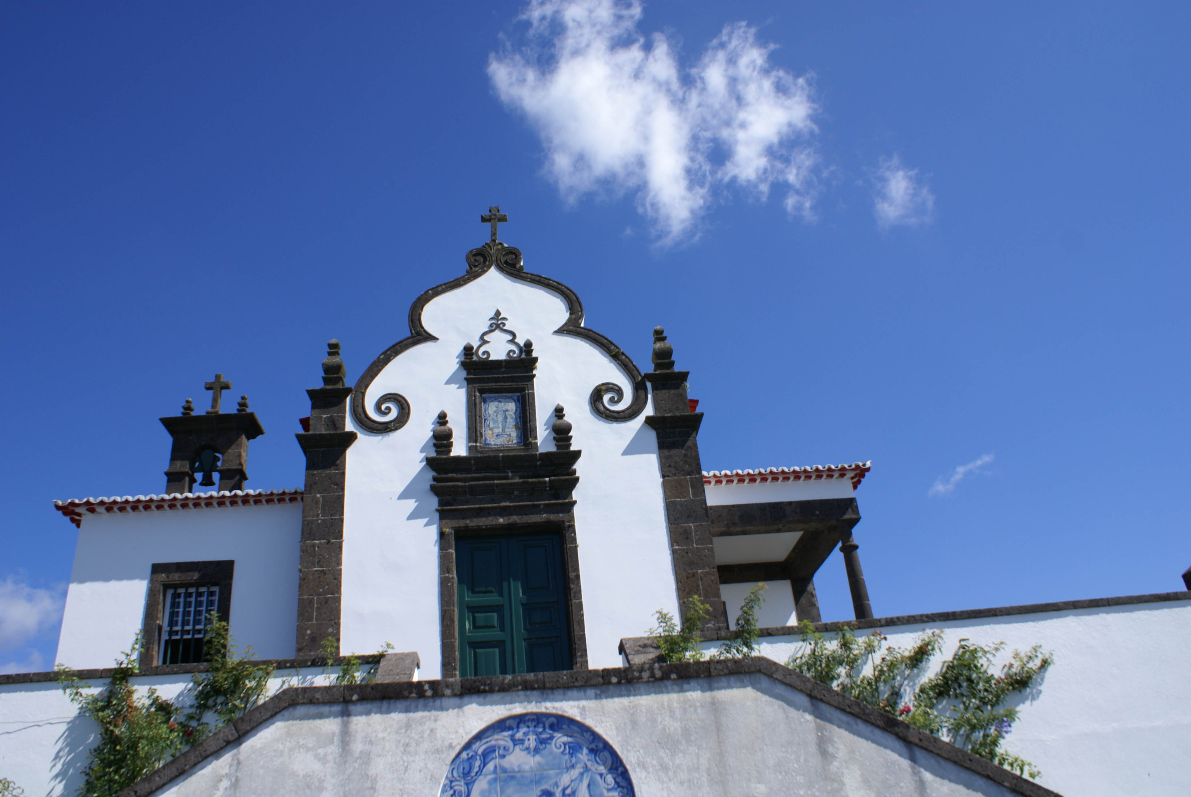 Front façade of the Chapel of Nossa Senhora da Paz, Vila Franca do Campo, São Miguel (Azores), Portugal